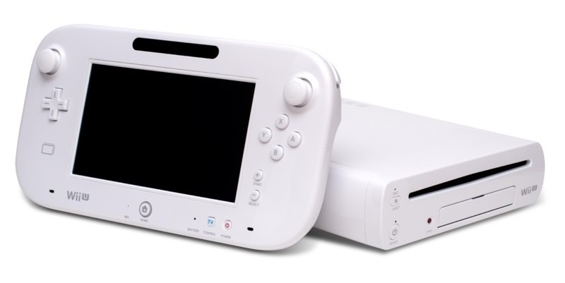 A white Wii U Console and Gamepad, without transparent background.